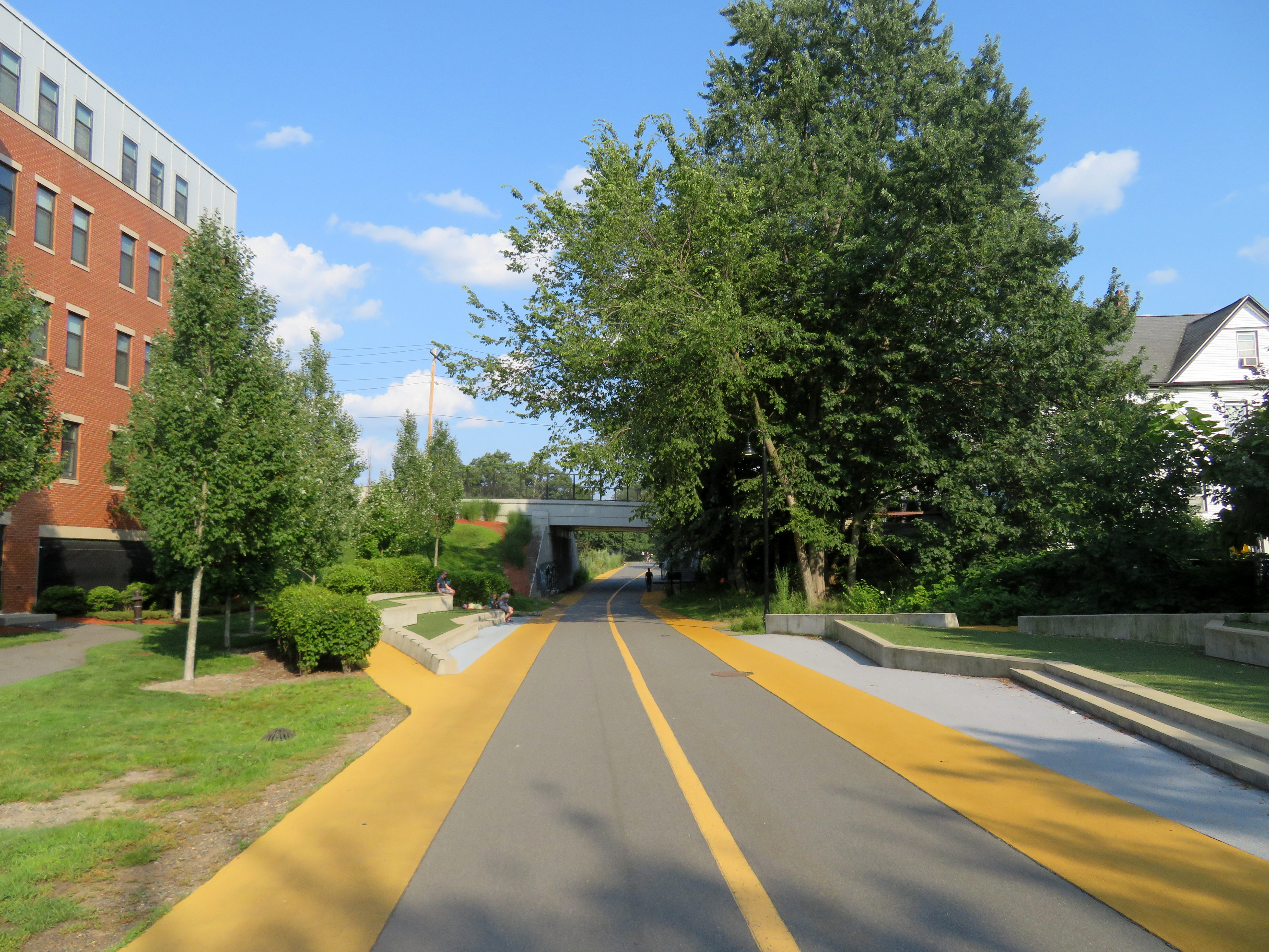 Somerville Community Path near Lowell Street in July 2019